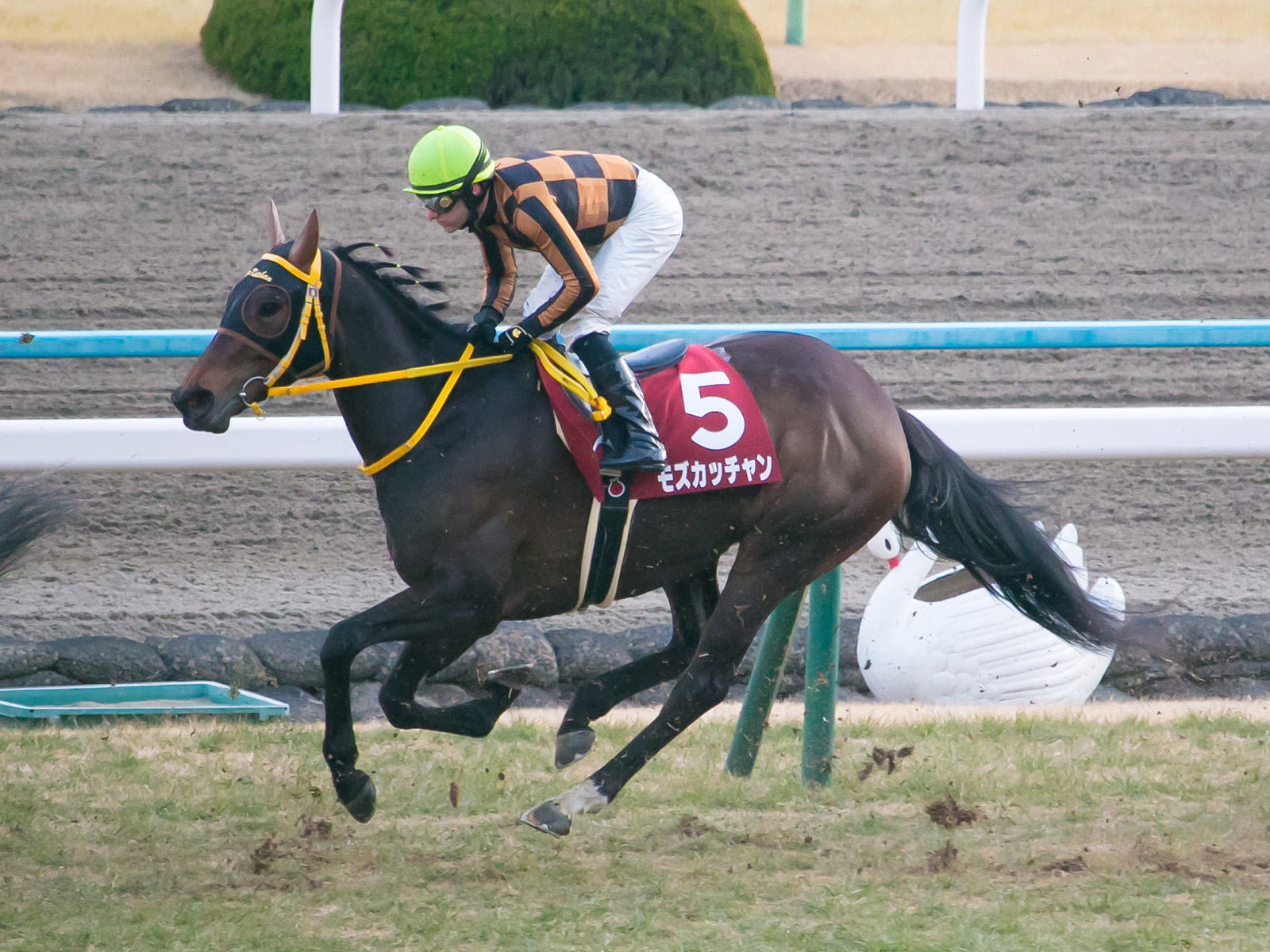 Mozu Katchan (JPN), Racehorse of Japan.